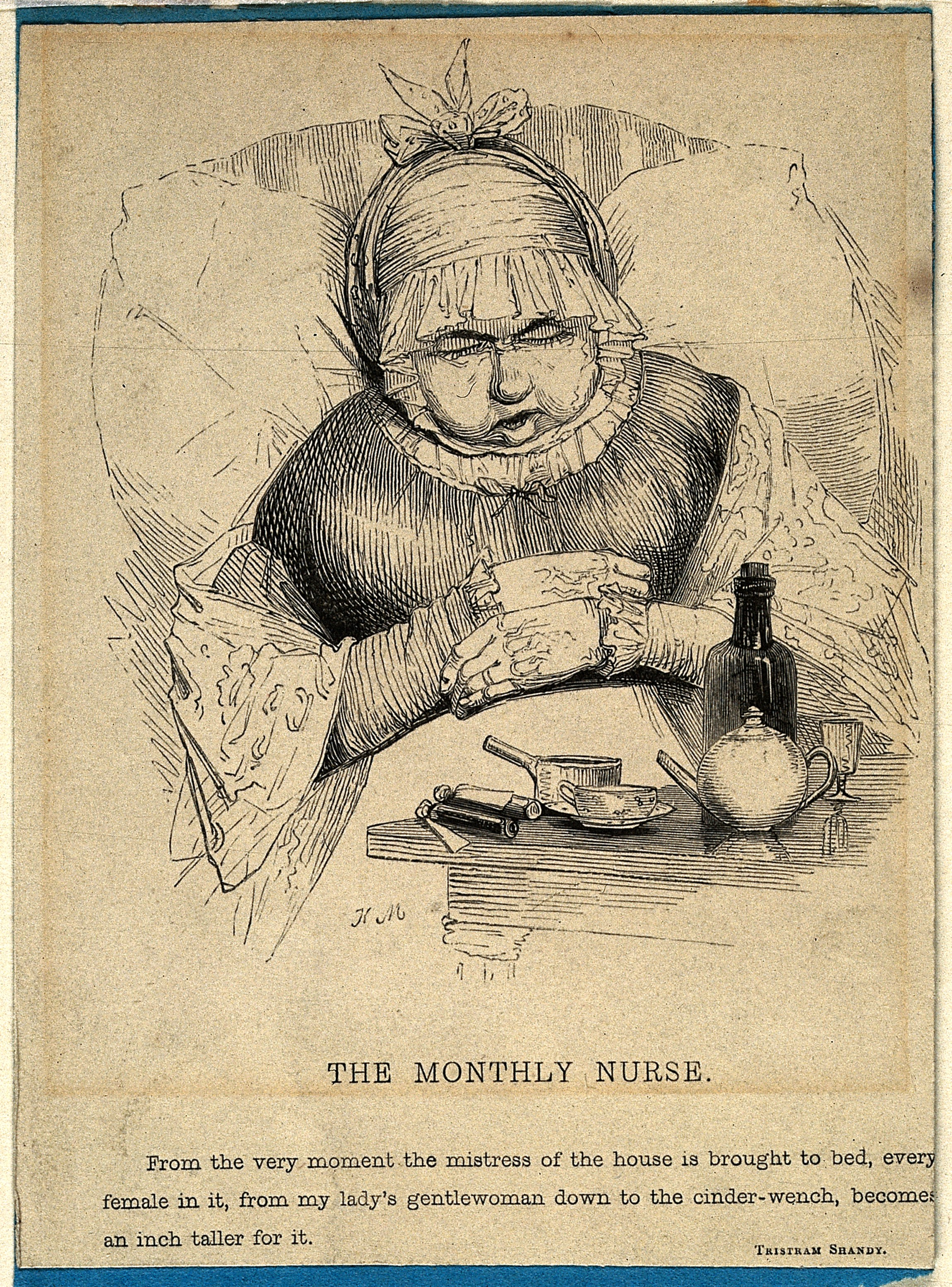 A monthly nurse, who looks after a mother and a newborn baby for the first month after the birth. Wood engraving by Orrin Smith, ca. 1840, after Kenny Meadows. In Heads of the people (p. 98), Leigh Hunt interprets Meadows's drawing as showing the monthly nurse settling down in her armchair after the mother and baby have both gone to sleep, taking snuff, a cup of tea, and a glass from a bottle of spirits Plate to: Kenny Meadows, Heads of the people, London: R. Tyas, 1840, facing p. 97 Lettering: The monthly nurse. "From the very moment the mistress of the house is brought to bed, every female in it, from my lady's gentlewoman down to the cinder-wench, becomes an inch taller for it." Tristram Shandy. K.M. Iconographic Collections Keywords: Caricatures; portrait prints; costume - history - 19th centu; Joseph Kenny Meadows; Nurses; Patients; Laurence Sterne; wood engravings